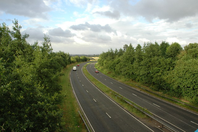 A49 spur, Winwick. This is a spur off the A49 near Winwick, Warrington. It joins the main A49 to the M6 just north of Warrington and this particular section just skims the north west corner of this grid square.